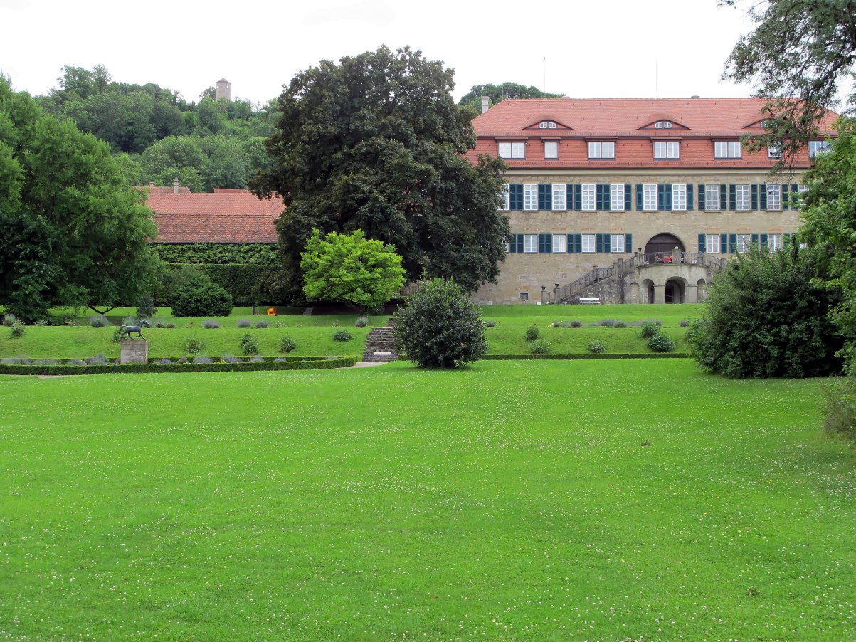 Village "Castell": Castle, View from North